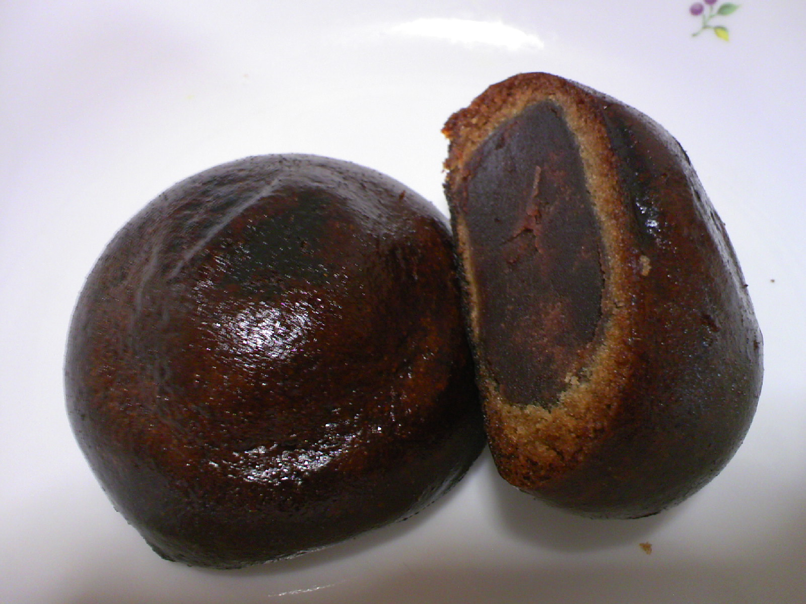 KarintoManjyu